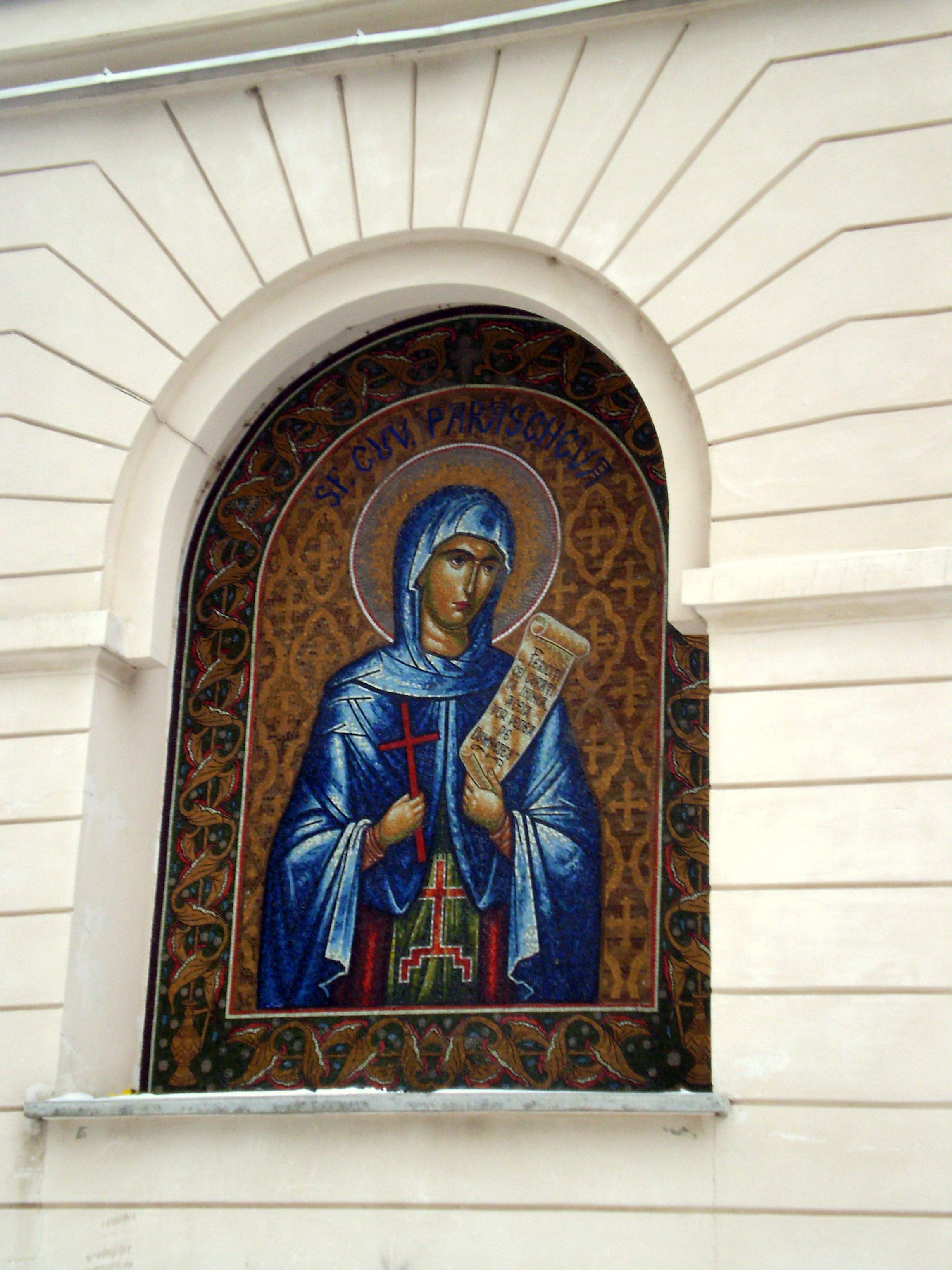 Iaşi , Metropolitan Orthodox Cathedral , the Metropolitan Palace , detail , Iaşi , Romania